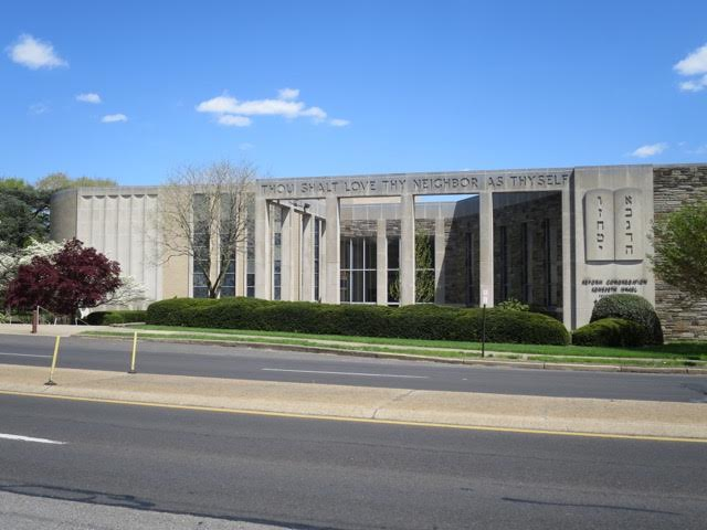 Current front entrance of Reform Congregation Keneseth Israel, Elkins Park, PA